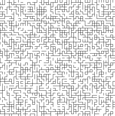 Bond percolation with p=51 in a two-dimensional grid of 50x50.